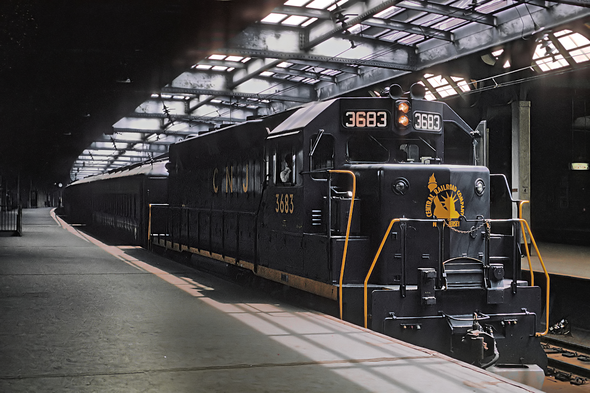 A Roger Puta Photograph